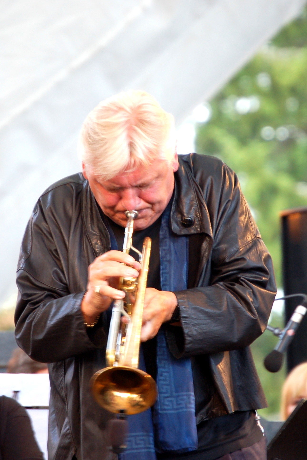 Palle Mikkelborg at Kongsberg Jazzfestival 2011. Photo: Thomas BjørndahlNorsk bokmål: Palle Mikkelborg på Kongsberg Jazzfestival 2011. Foto: Thomas Bjørndahl